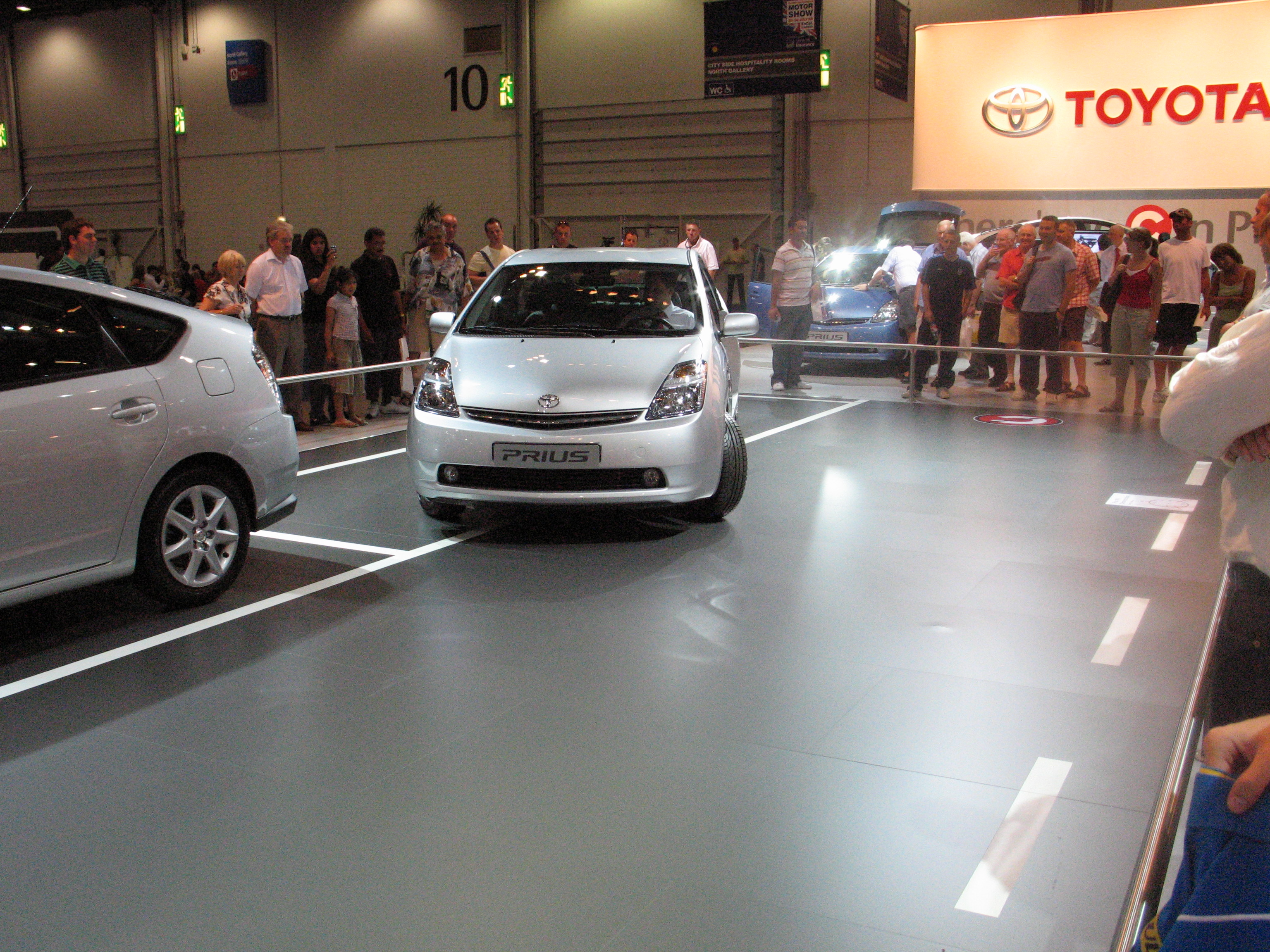 A self-parking Prius.. This has to be Smug^2 !! Mind you, they were using a space so big you could park a bendy-bus in there.. When it can cope with my street and wedge a 6 into a space exactly 9" bigger than the car without hitting the kerb or bump-parking, /then/ I'll be impressed :)